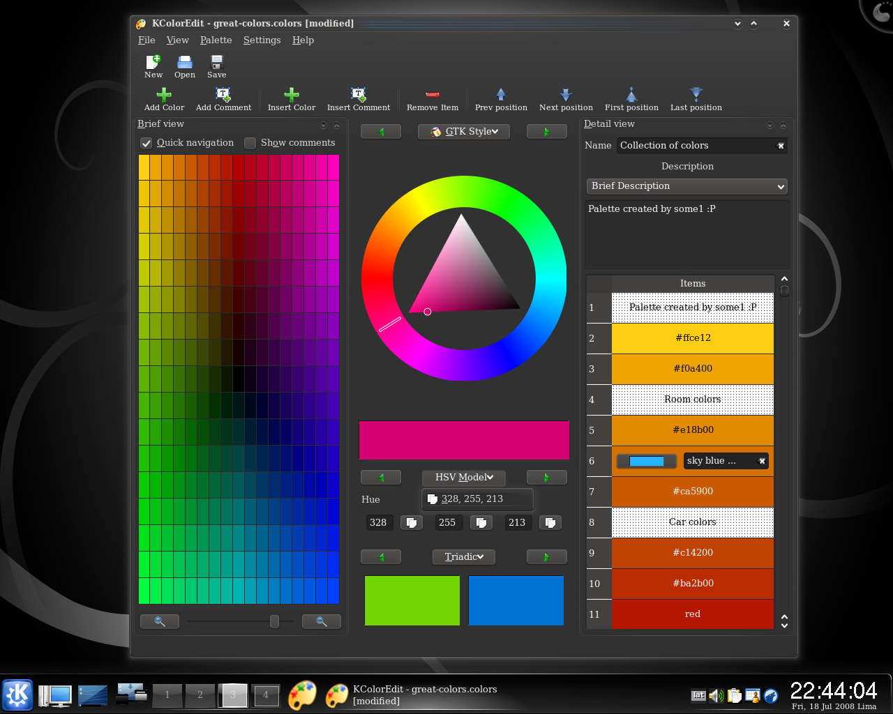 snapshot of the current version of kcoloredit